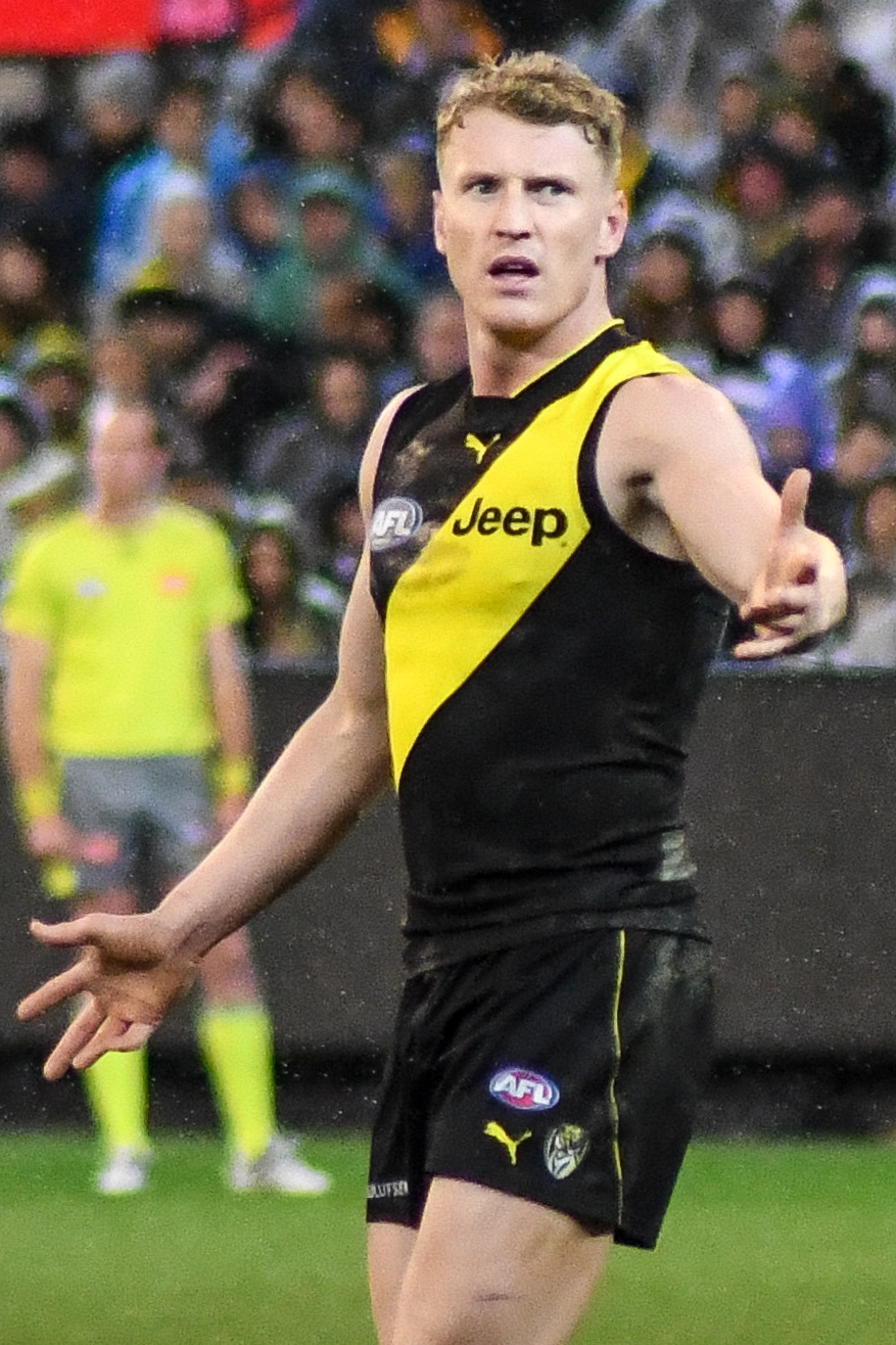 Josh Caddy of Richmond during the 2018 AFL round 20 match between Richmond and Geelong at the Melbourne Cricket Ground on Friday, 3 August 2018 in Melbourne, Victoria.